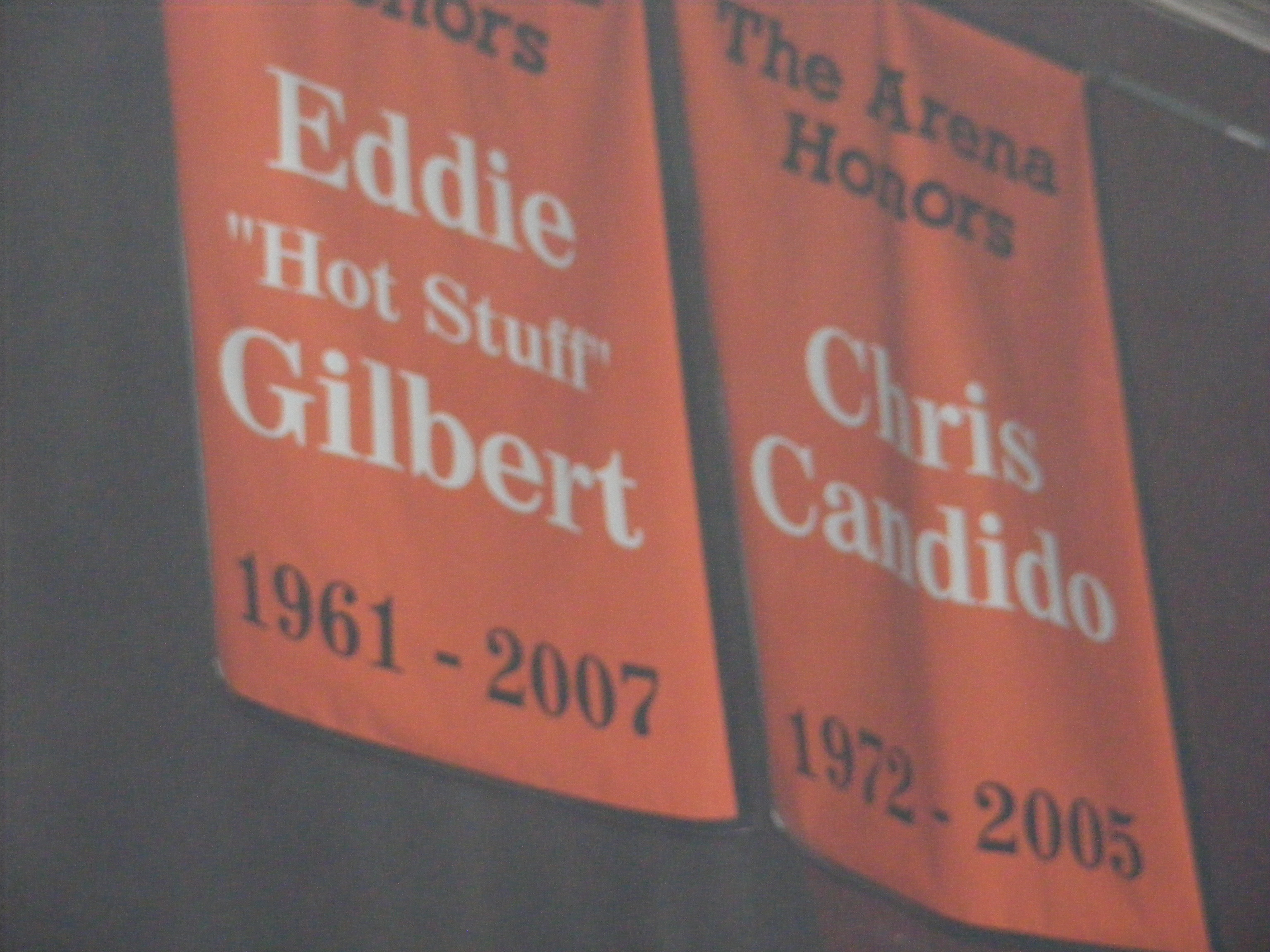 Eddie Gilbert's and Chris Candido's Hardcore Hall of Fame banners in the Asylum Arena.